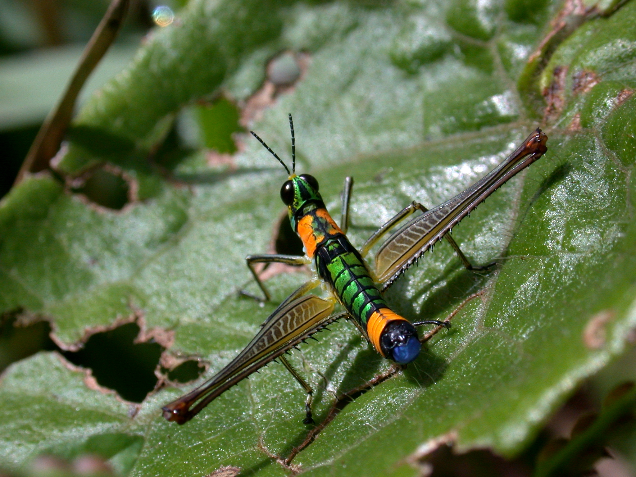 A very beautiful coloured grasshopper (Eumastax sp.) at western mountain ridge of Colombia Picture taken at 13 July 2003 by Edwin Carrascal, MD f number: 6.3 Focal length: 20.2 mm